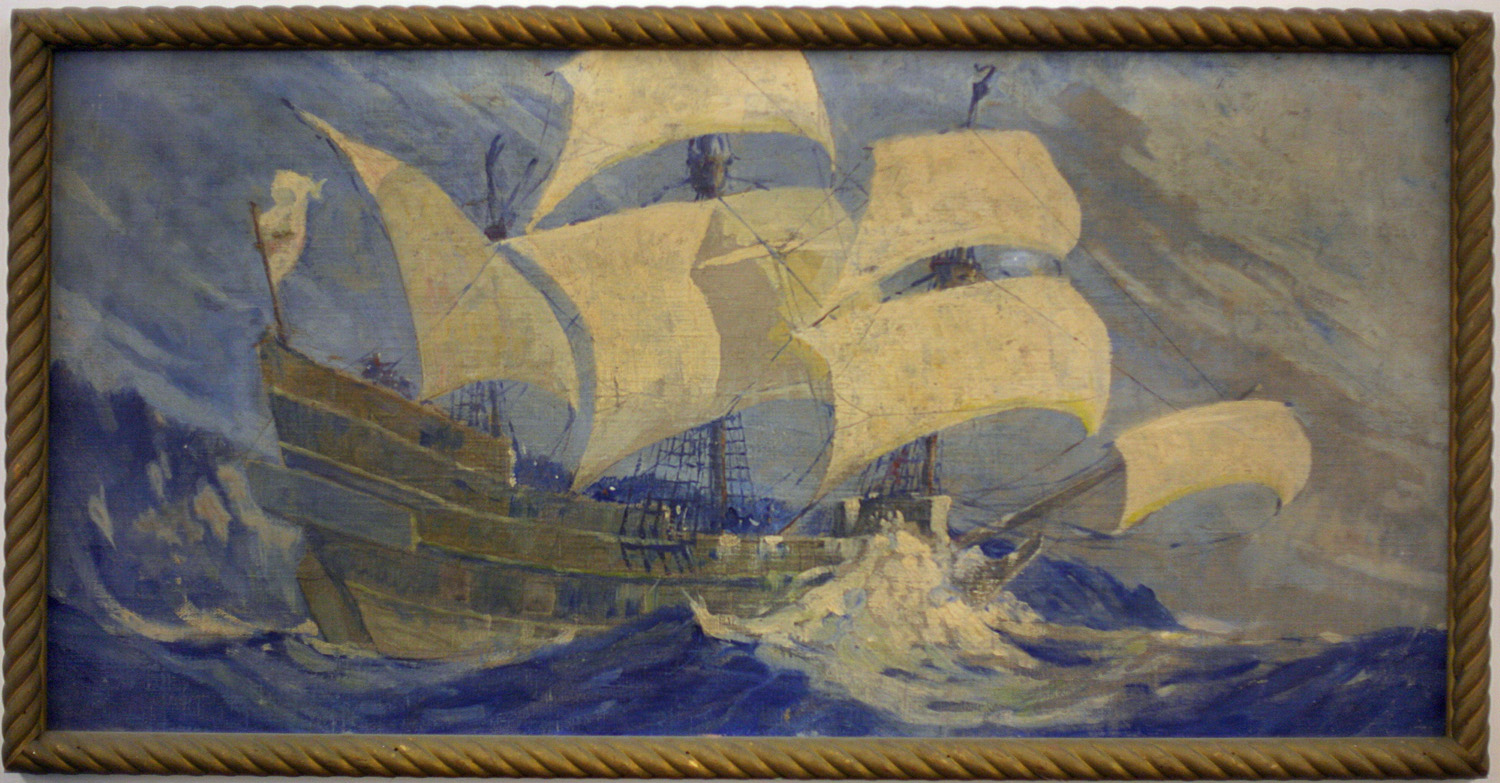 BPLDC no.: 09_03_000074 Subtitle: Magellan's ship, Vitoria Creator: King, Frederic Leonard (American painter and illustrator, 1879-1947) Date created: 1934-1935 General format: oil on canvas BPL Department: Special Collections, East Boston Branch Library Dimensions: visible image 22 ½ x 46 ¼ in., framed 25 ½ x 49 ¼ in. Description: In this ship, Ferdinand Magellan started upon a great and eventful expedition. He discovered the straits, which bear his name and crossed the broad Pacific. Although Magellan himself was killed in the Philippines, one of his crew continued to Spain, thus completing in the Vitoria the first circumnavigation of the globe. Notes: The description above was written in 1935. Ships Through the Ages, originally four murals painted by Frederic Leonard King between 1934 and 1935, was commissioned as part of the Public Works Art Project for the Jeffries Point Branch of the Boston Public Library. In 1956, the Jeffries Point Branch closed, and each mural was divided into multiple paintings and relocated to the East Boston Branch Library where they are currently on display; however, several sections of the murals are missing.